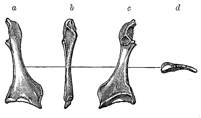 Left coracoid of Cimolopteryx rarus